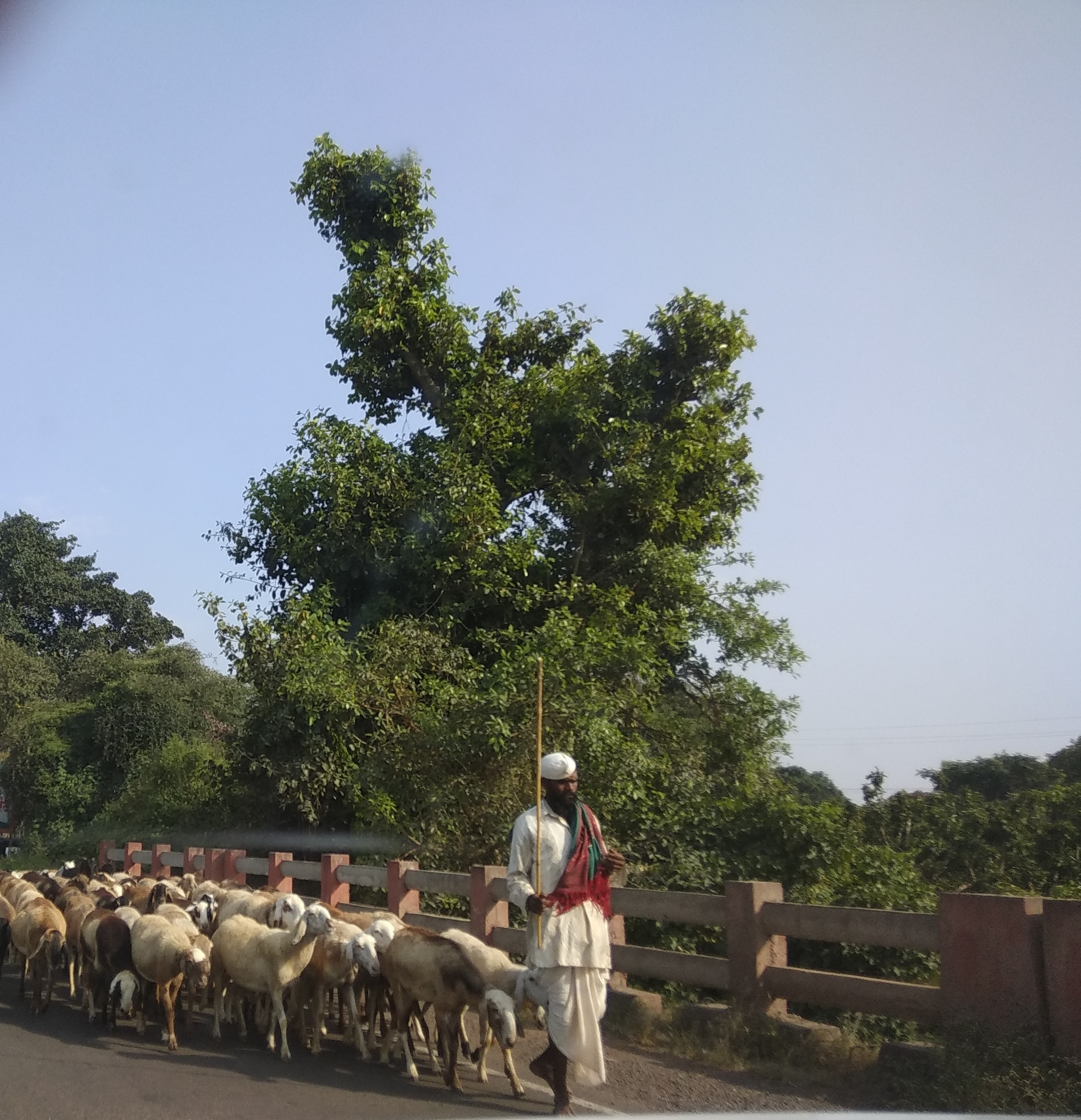 Shephard